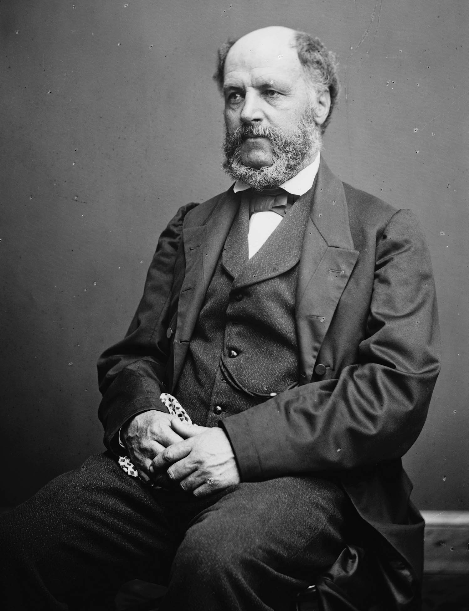 Charles Benedict Calvert, former U.S. Congressman from Maryland.